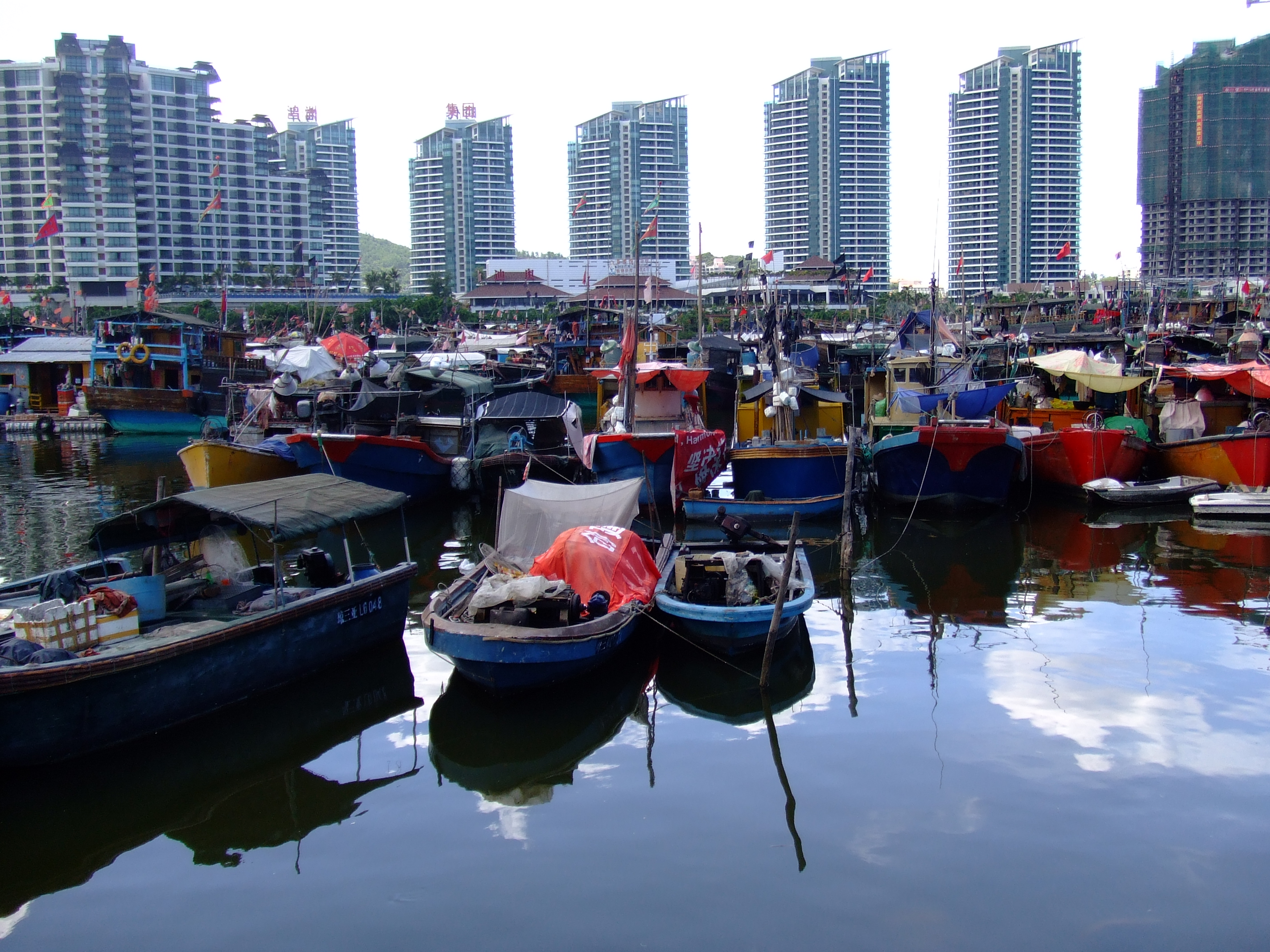 Boats and residential towers — in Sanya, Hainan Province, Southeast China.